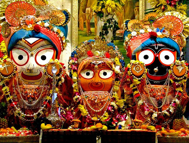 Waiting Ratha Yatra: colours of life.